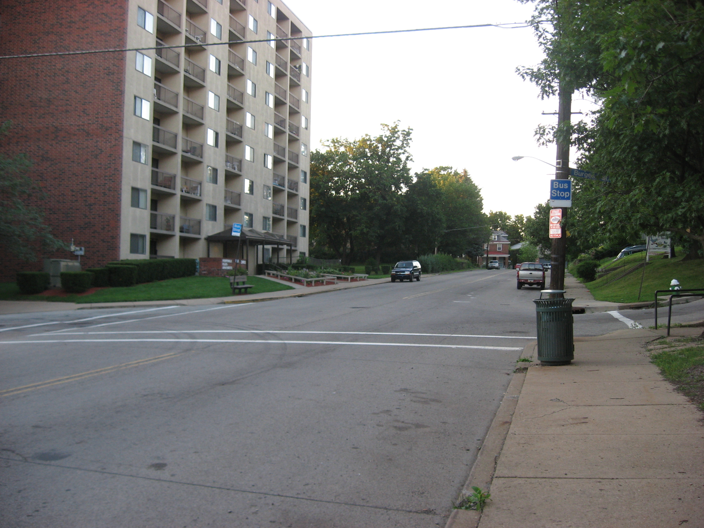 Northward along Perrysville Avenue (U.S. Route 19) at the intersection with Burgess St. in the Perry South neighborhood of Pittsburgh, Pennsylvania, United States.